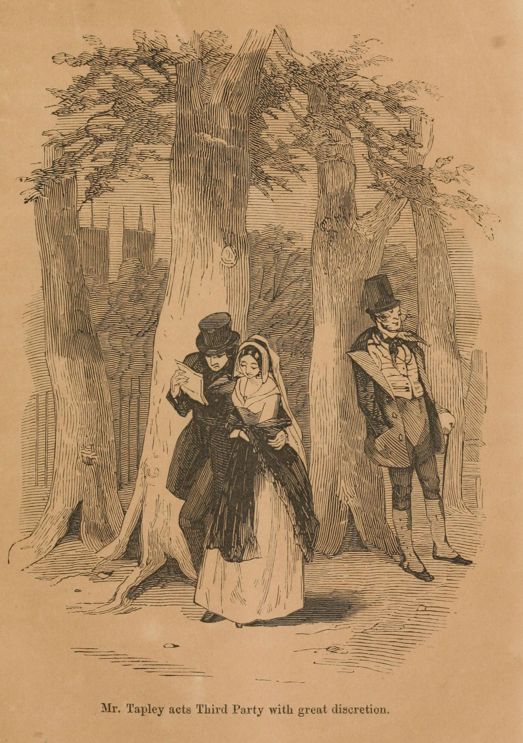 Martin Chuzzlewit by Ch. Dickens - Martin and Mary meet in the presence of Mark Tapley ("Mr. Tapley Acts Third Party With Great Discretion").